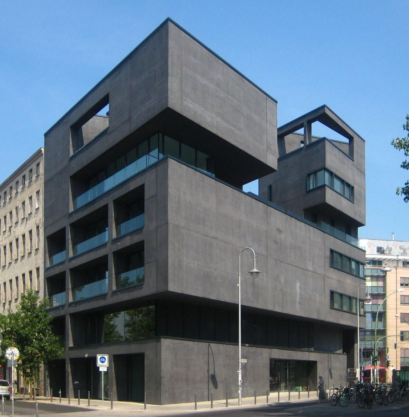 The residential and commercial building Linienstraße No. 40, corner of Rosa-Luxemburg-Straße (on the right), in Berlin-Mitte was built according to plans of the architects Roger Bundschuh and Cosima von Bonin.